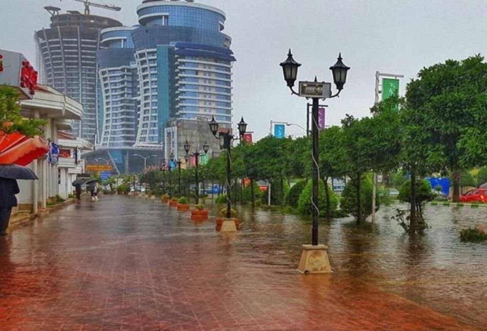 Motel Ghoo, A rainy day, Winter 2018